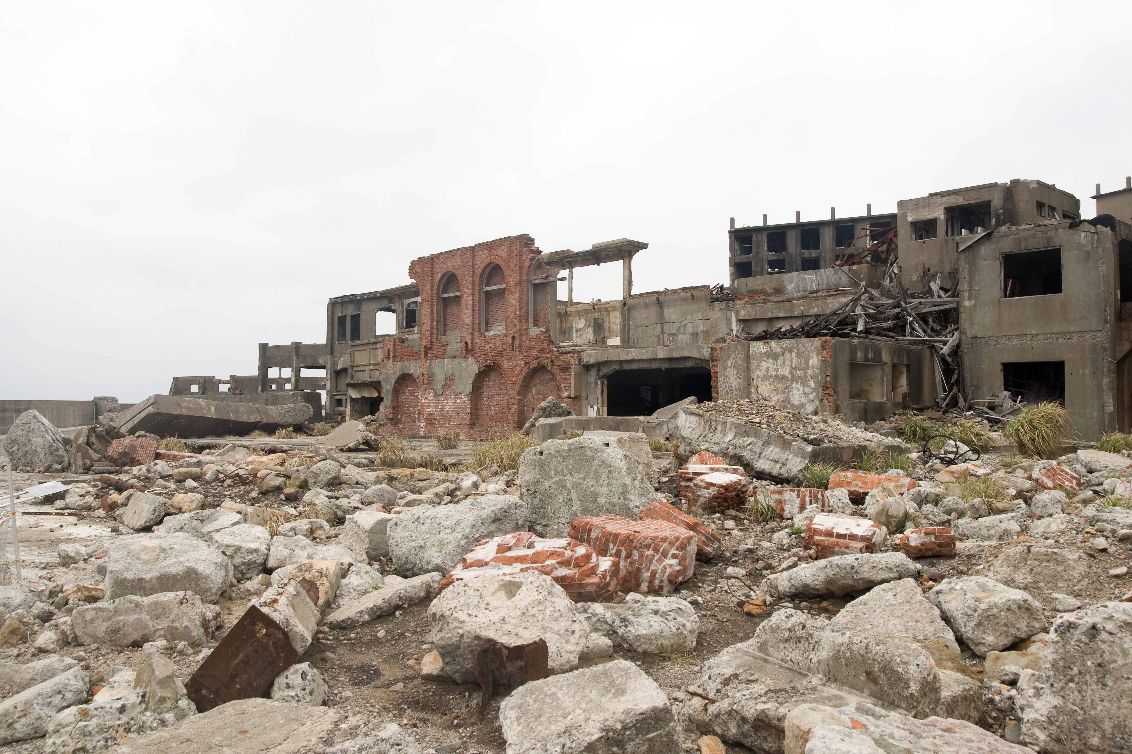 Hashima Island (another name:Gunkan-jima 軍艦島), Nagasaki Pref., Japan.